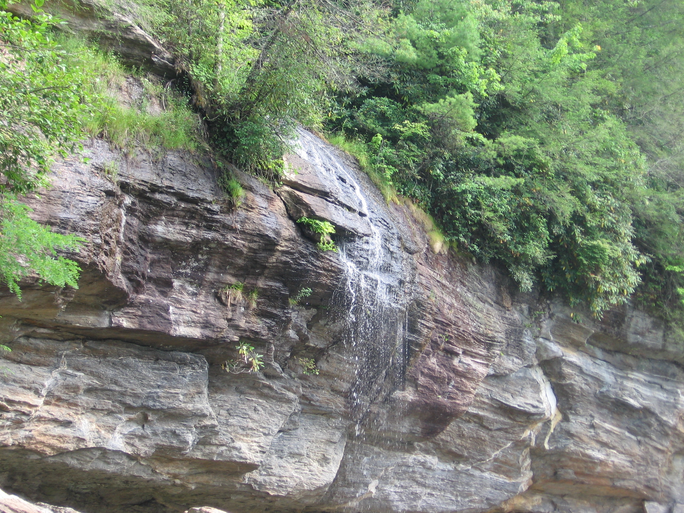 Depicted place: Bridal Veil Falls